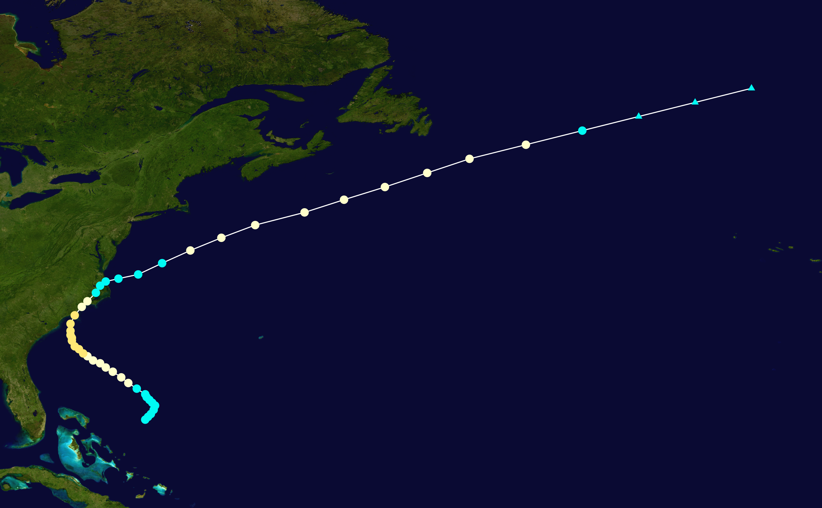 1857 North Carolina hurricane track. Uses the color scheme from the Saffir-Simpson Hurricane Scale.